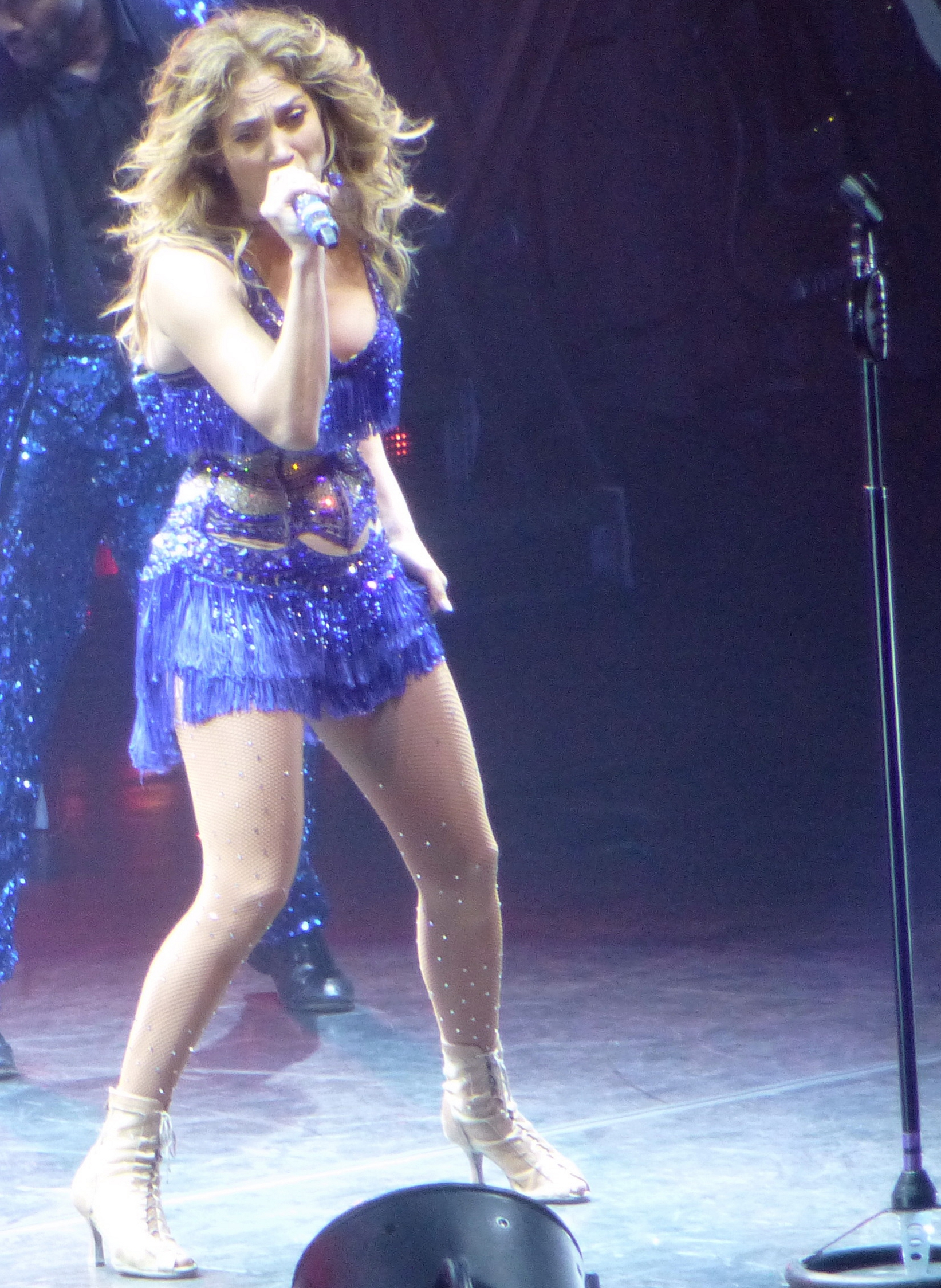 Jennifer LOPEZ en concert à Paris Bercy dans le cadre du " DANCE AGAIN WORLD TOUR " en OCTOBRE 2012